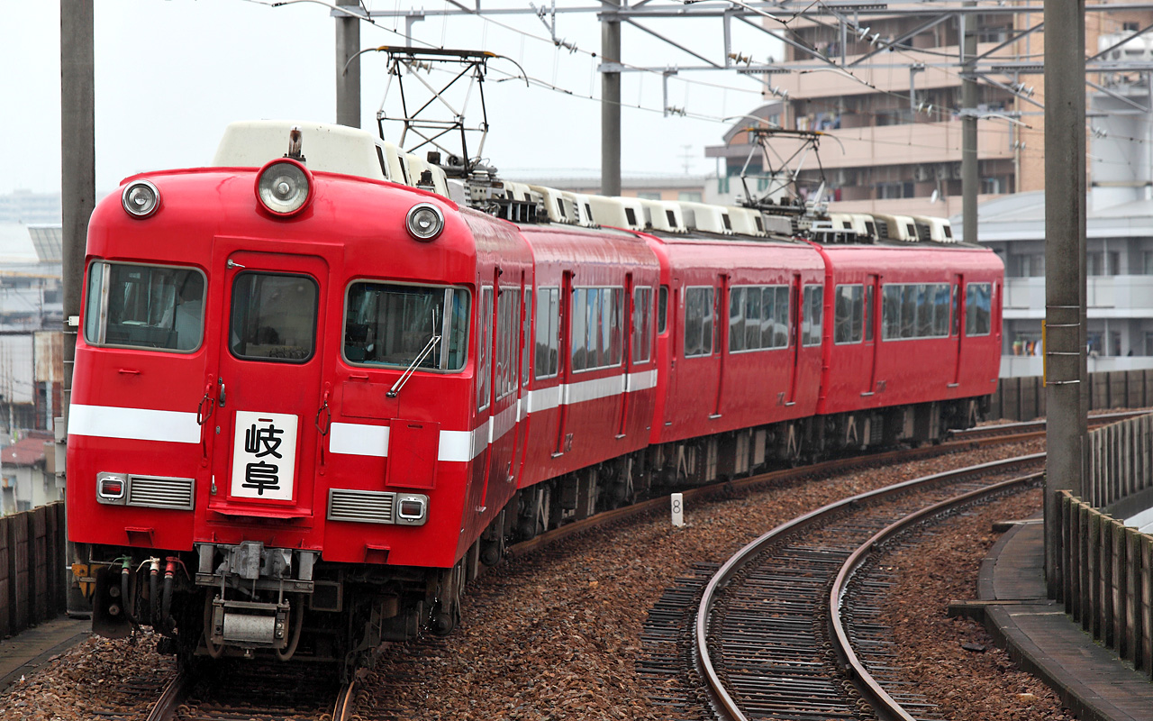 Meitetsu 7700 series